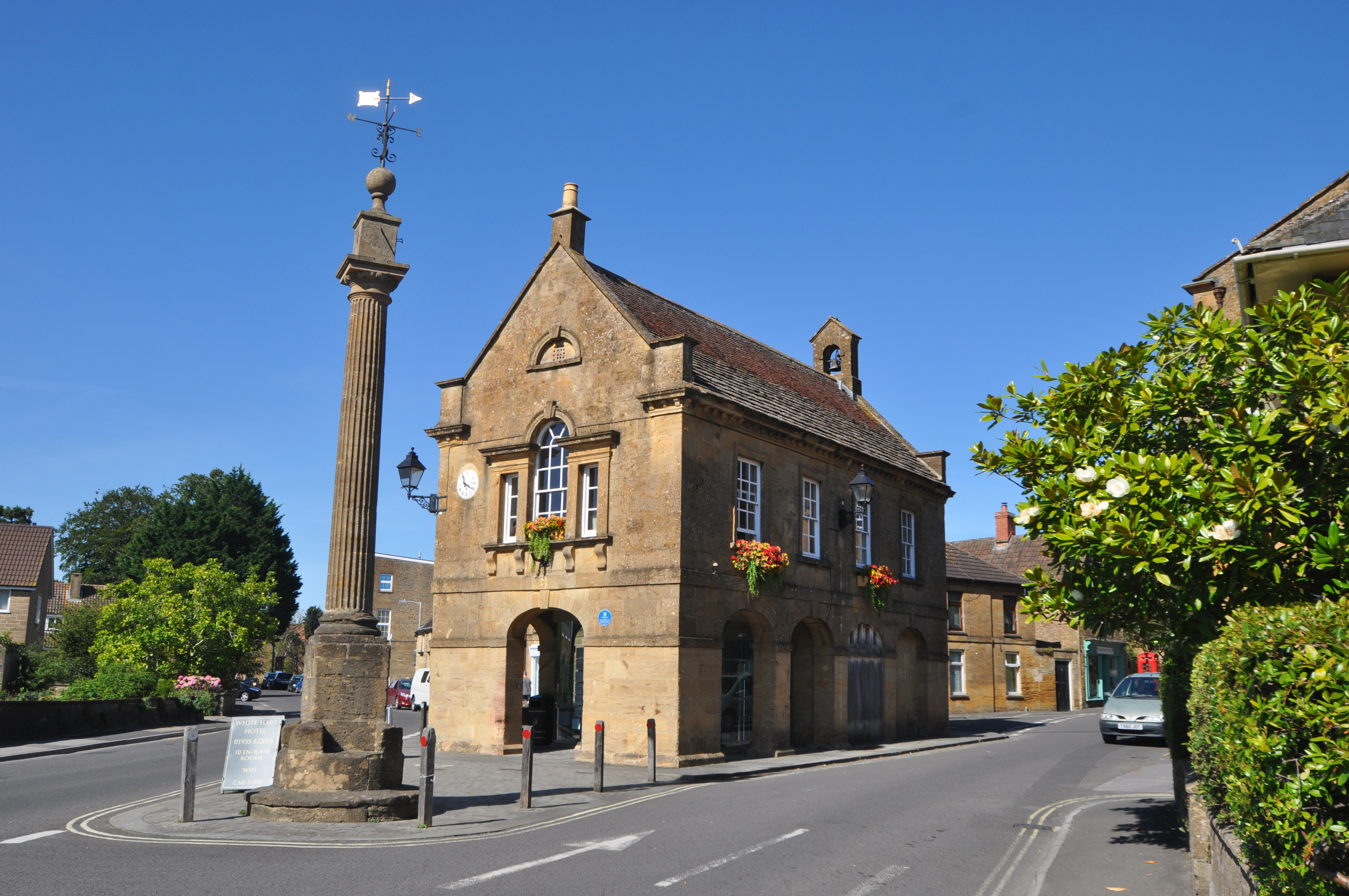 The Market House Wikidata has entry Q26519825 with data related to this item. Market Cross Wikidata has entry Q26556702 with data related to this item.